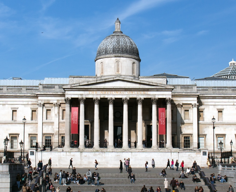 National Gallery